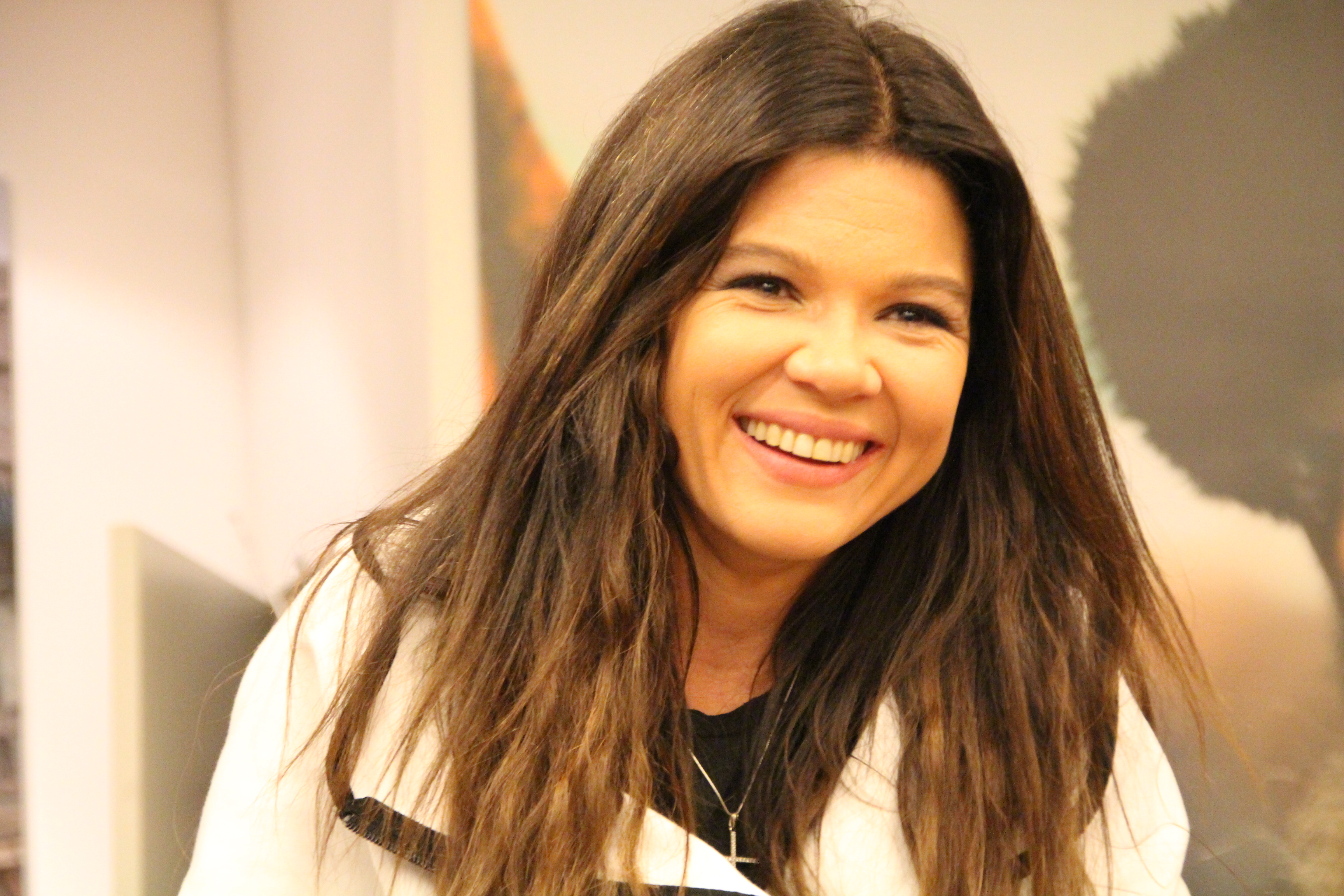 Ruslana at the panel discussion of the Lew Kopelew Forum, Cologne, Germany, 18th April 2015